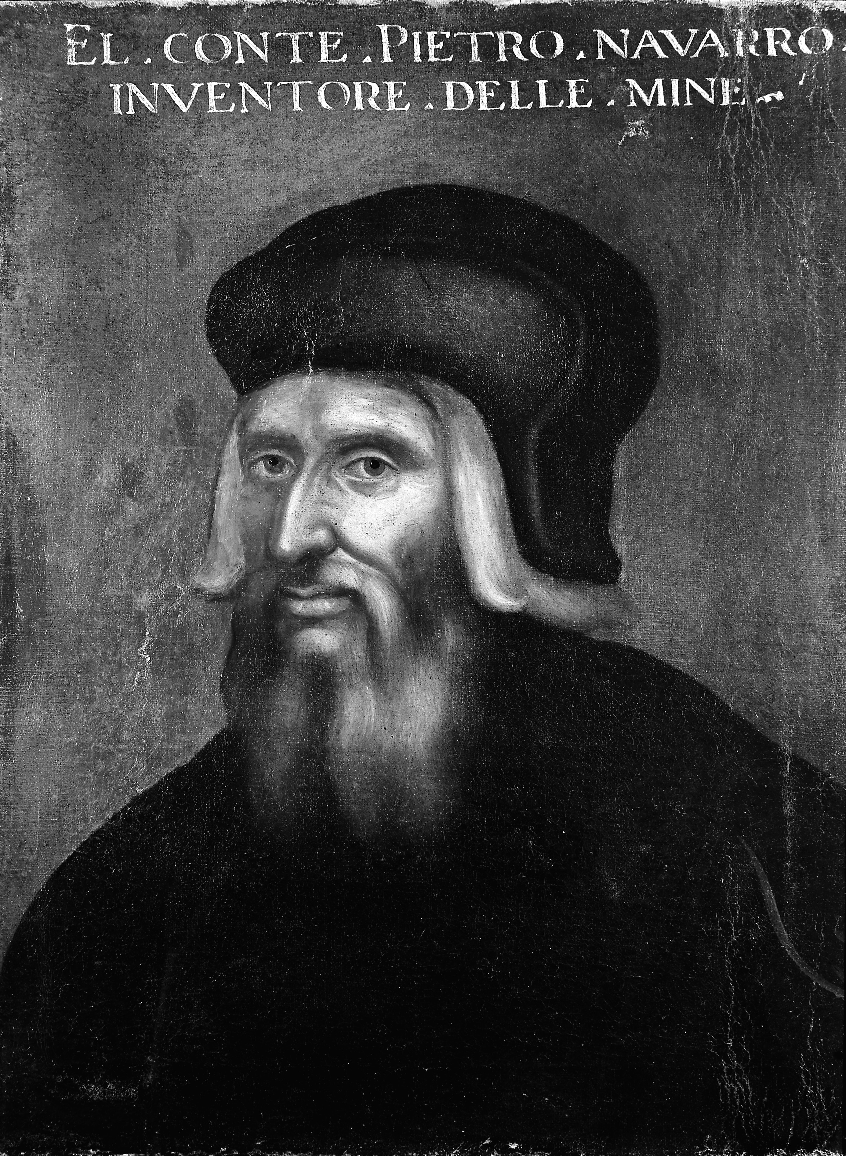 Portrait of Pietro Navarro. Wellcome Images